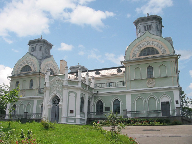 Korsun-Shevchenkivskyi (Ukraine)